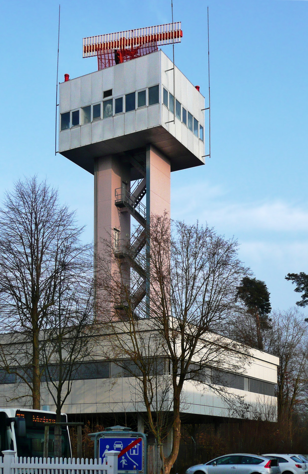 Air traffic control radar of Stuttgart Airport